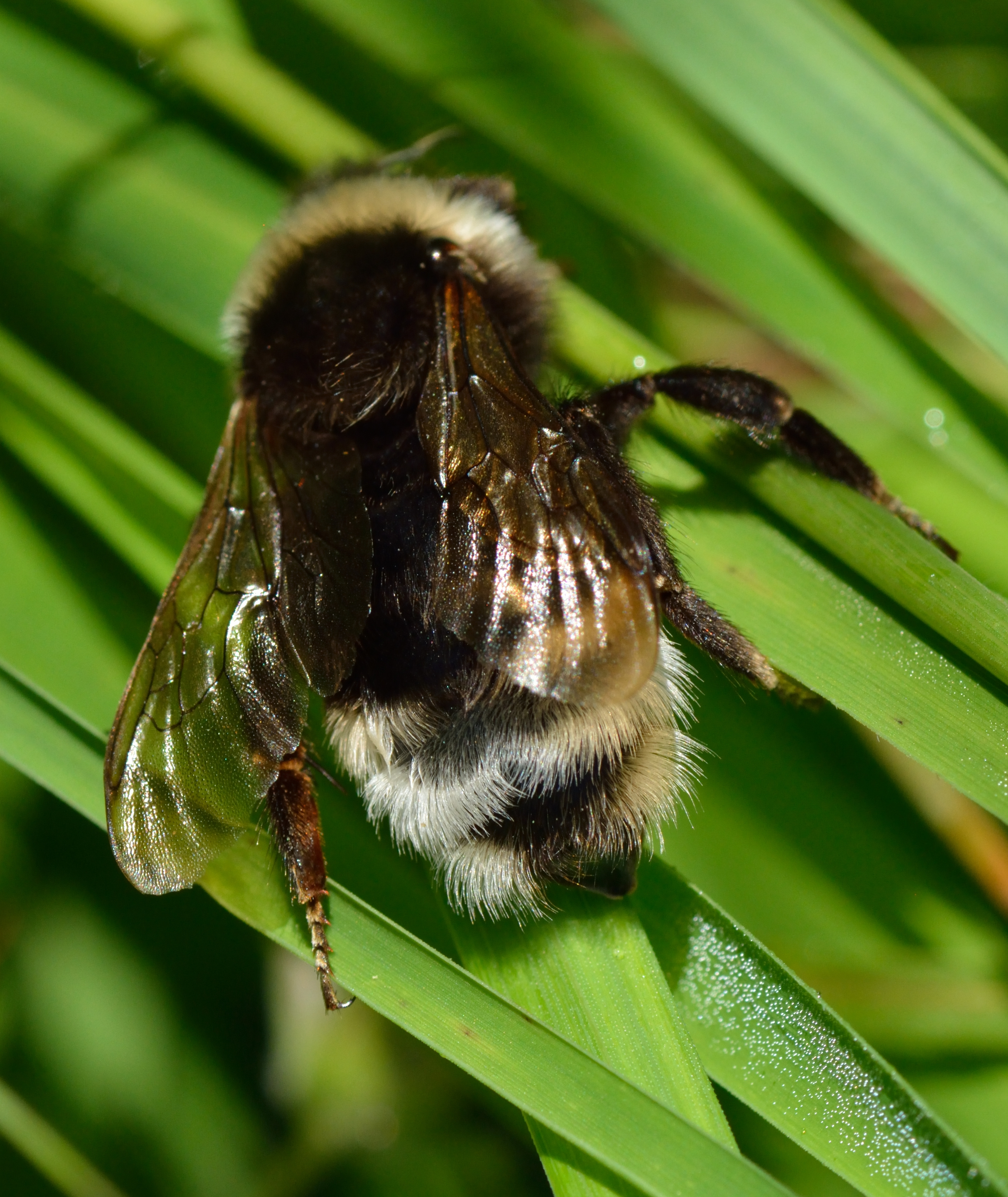 Female gypsy's cuckoo bumblebee (Bombus bohemicus). Keila, Northwestern Estonia.